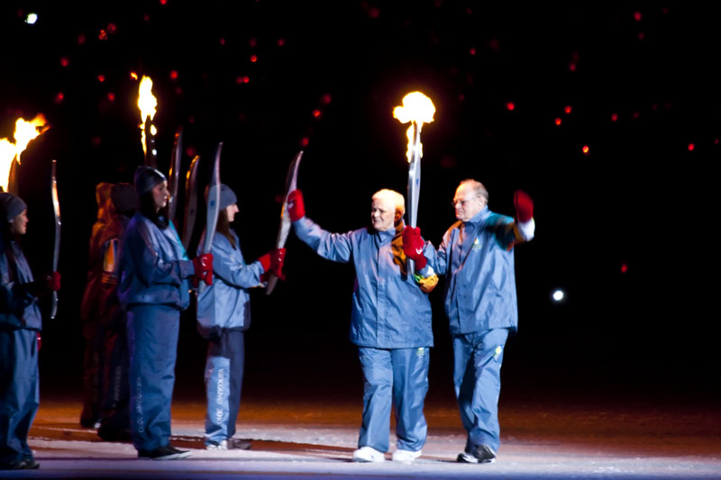 Terry Fox's parents Betty and Rolly Fox have carried the Paralympic torch into the stadium, at the Opening Ceremony at the Winter Paralympics 2010 in Vancouver, Canada.